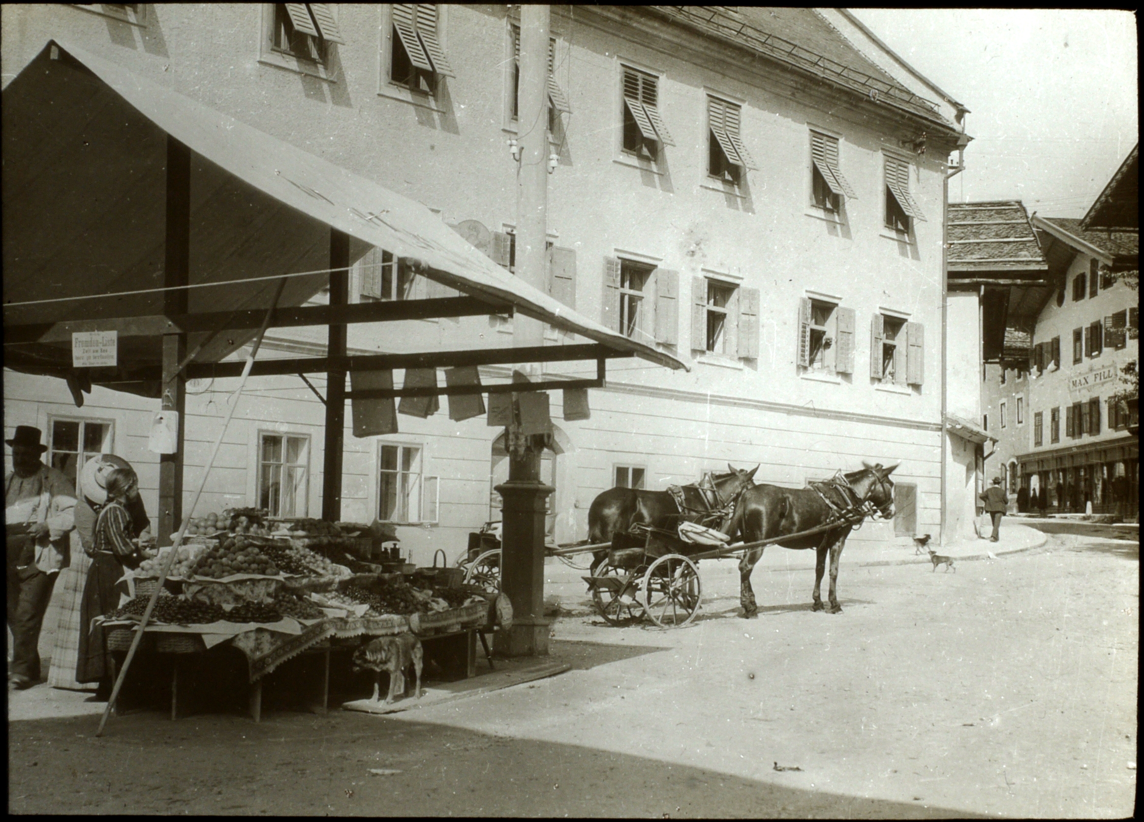 photo A.E.Hasse, Baildon, Yorkshire. Orig. 6x6 glass platte diapositivr